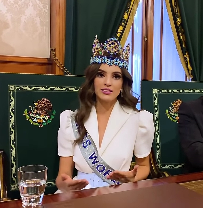 Miss World 2018, Vanessa Ponce meets the president of Mexico - Andrés Manuel López Obrador.